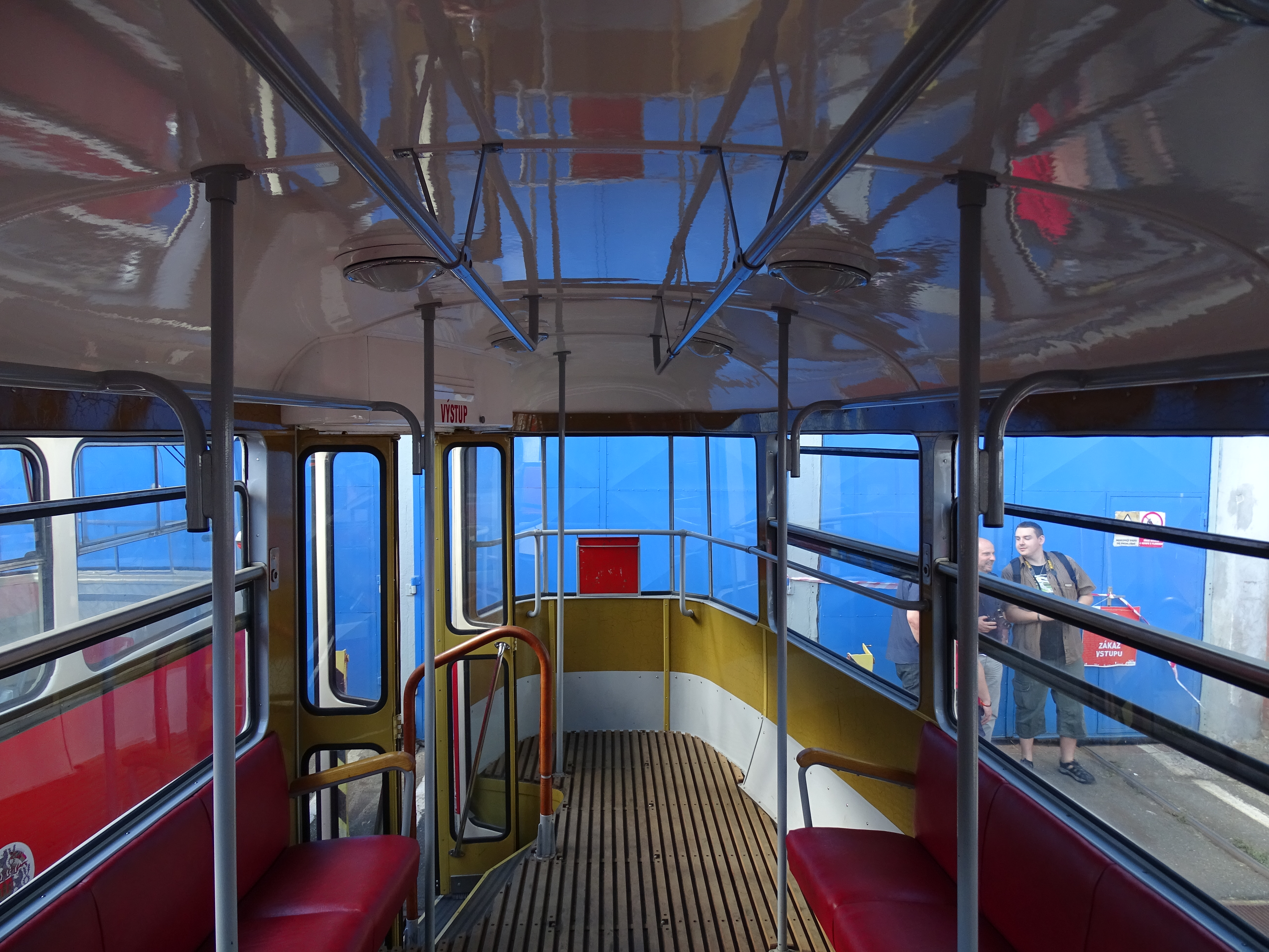 Prague-Strašnice, Czech Republic. Strašnice tram depot, a tram Tatra T1 #5002.